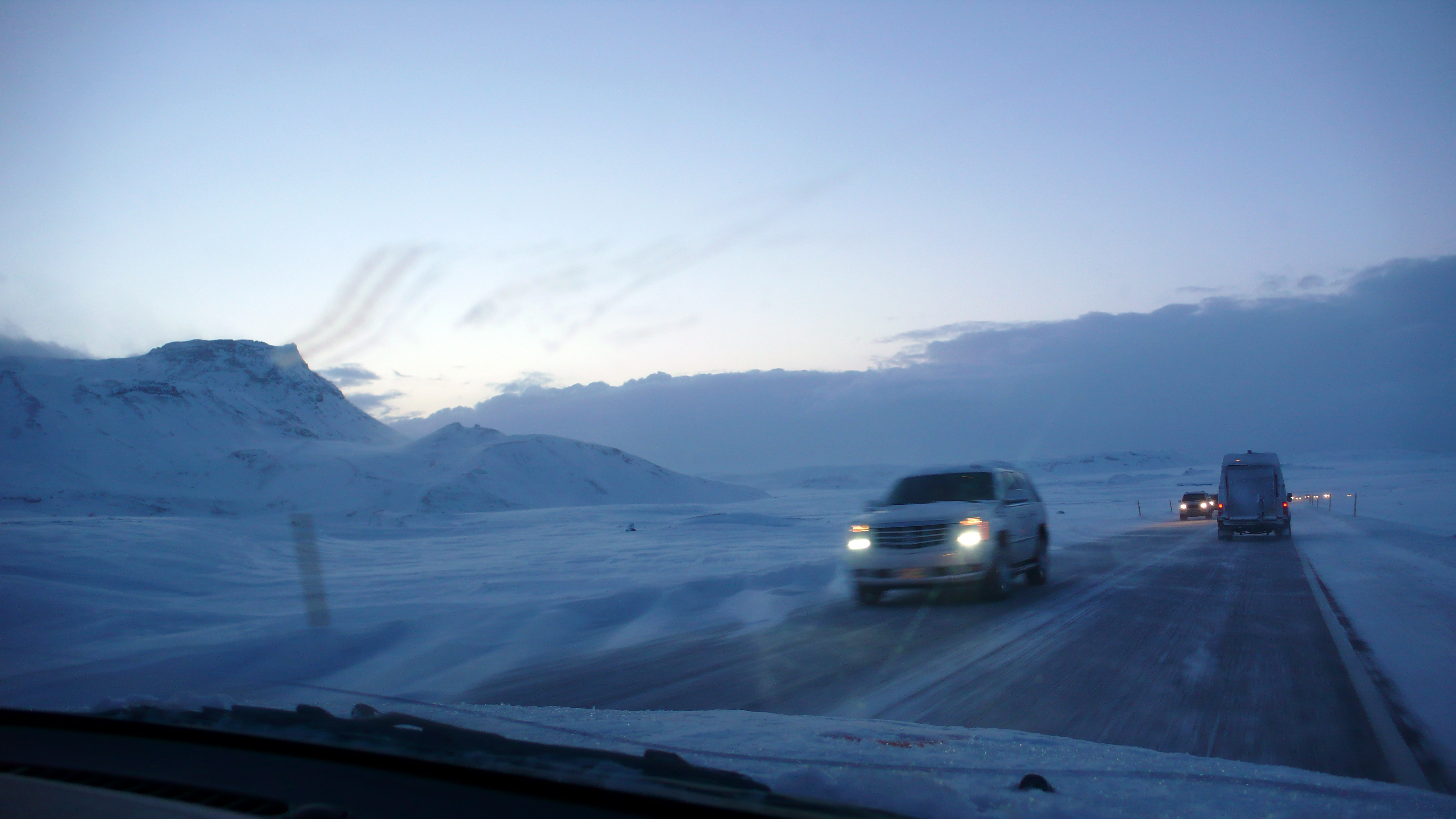 Saturday Winter Afternoon on the Road from the Factory, Iceland Saturday afternoon after a working day and looking forward to a free Sunday, January 08, Iceland.